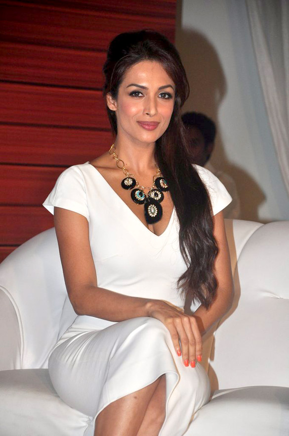 Malaika Arora launches the Taiwan Excellence campaign